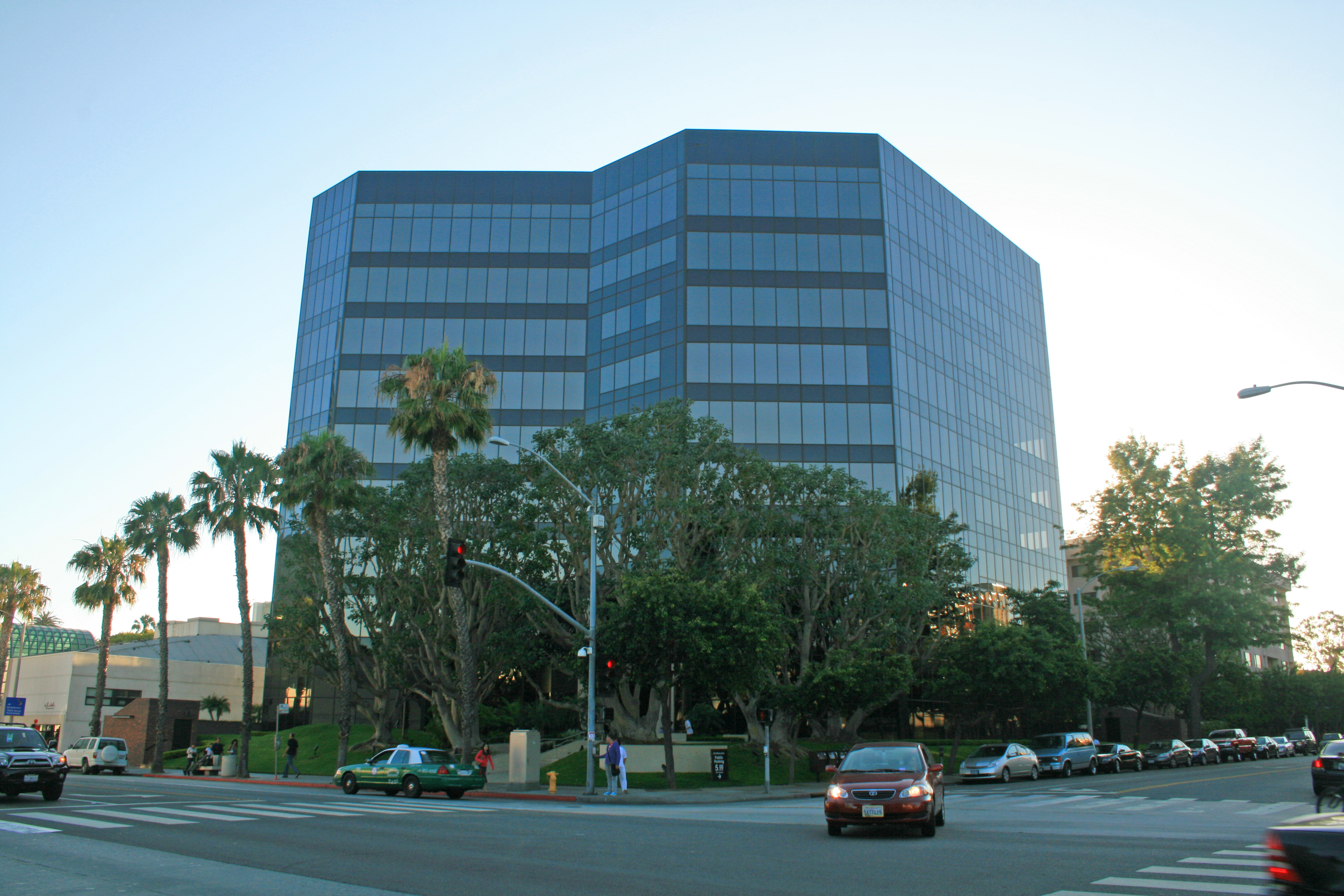 233 Wilshire Blvd. from Santa Monica boulevard